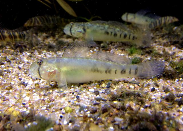 Oligolepis acutipennis, Belgium